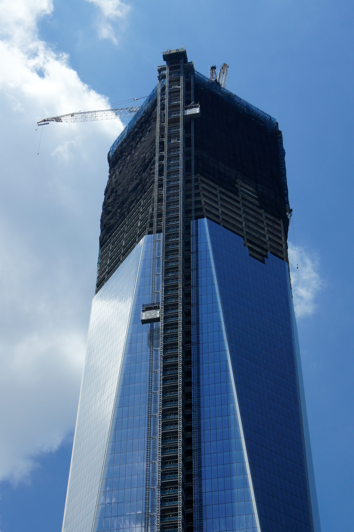 One World Trade Center under construction as of July 2012, New York City.